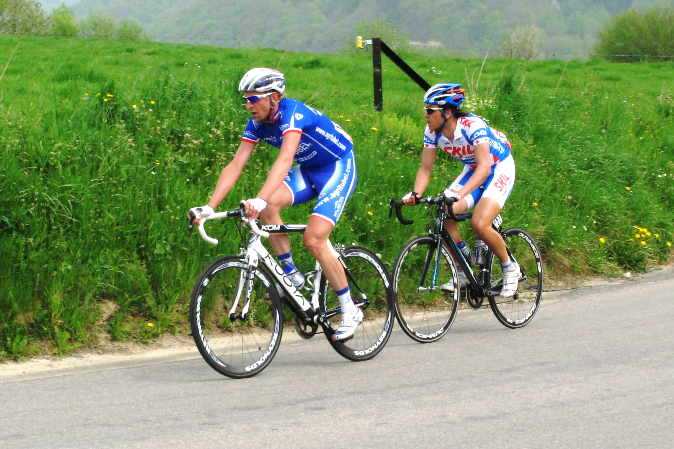 Christophe Moreau and Fumiyuki Beppu in côte d'Ereffe during Flèche wallonne 2009